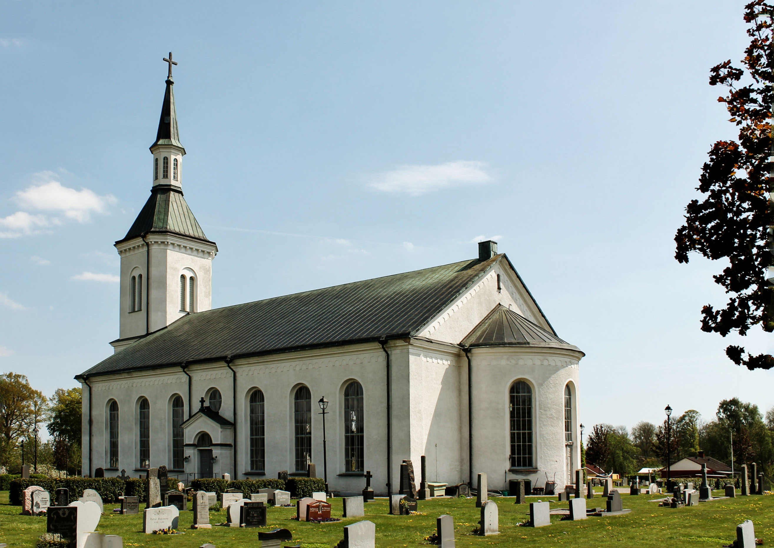 Vederslövs new church.The church which was built in 1878-79 marked by the neo-classical style but with clear historicerande stylistic features of neo-Gothic and neo-romanticism, designed by Edvard von Rothstein. The church was consecrated October 10, 1879 by Bishop Johan Andersson.